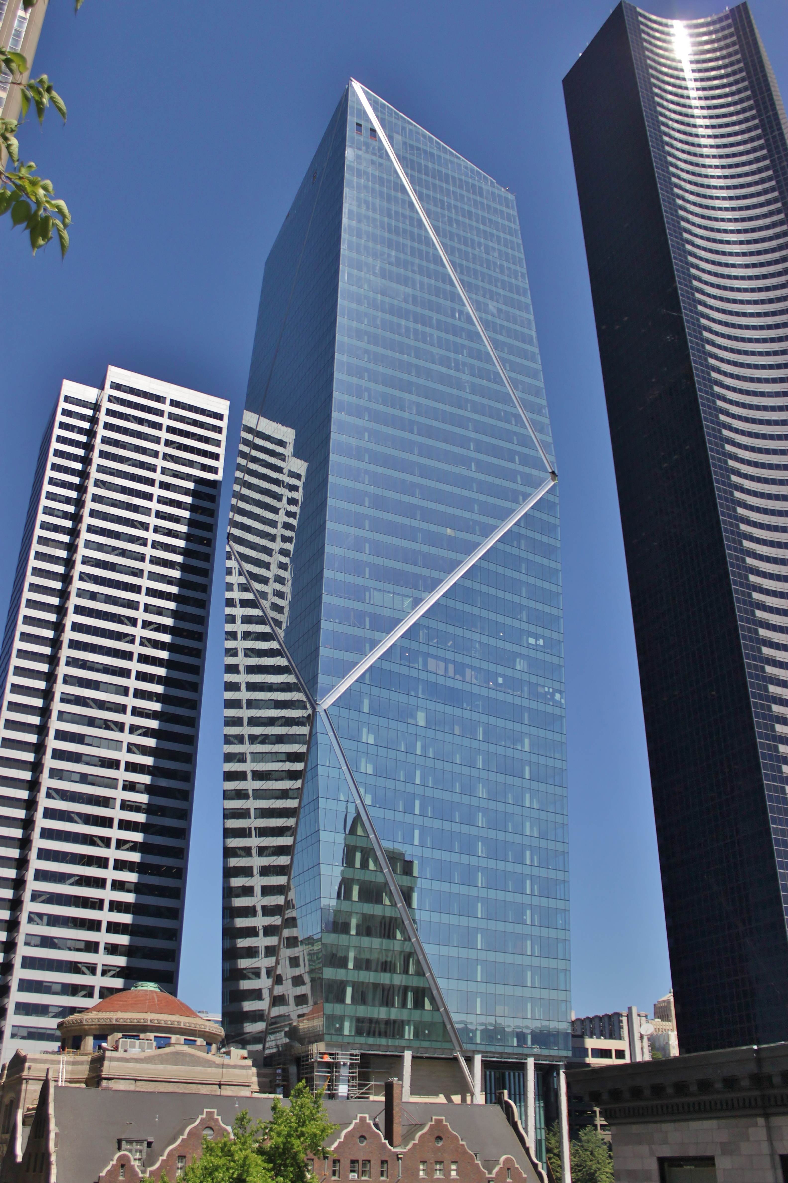 F5 Tower, an under construction office-hotel tower in Downtown Seattle, seen from the 7th floor balcony of the Fourth and Madison Building.